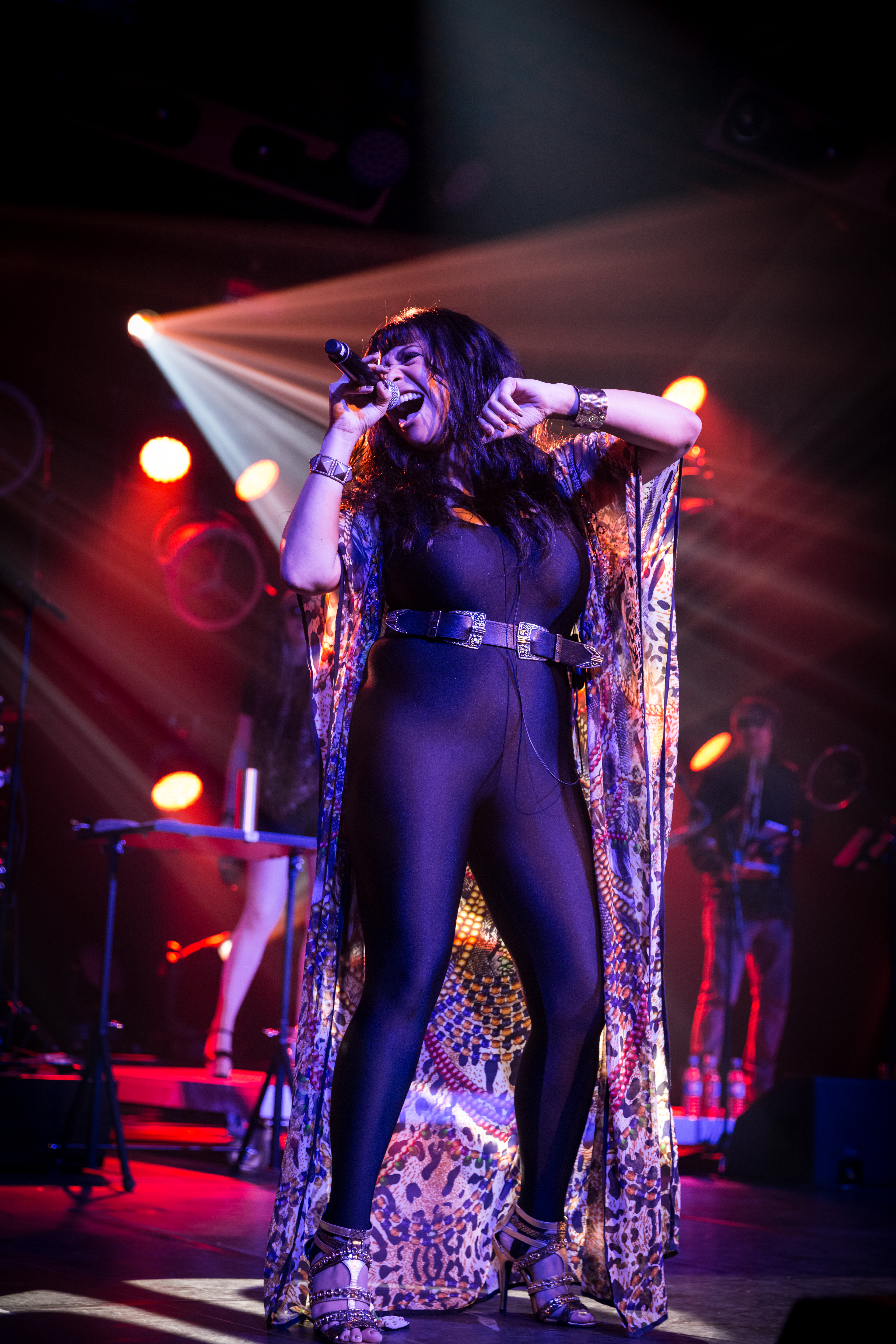 The Brand New Heavies - Leverkusener Jazztage 2016